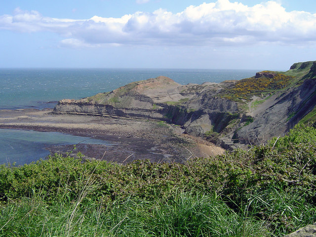 Kettleness Views of Kettle Ness with a glimpse of the disused quarries.